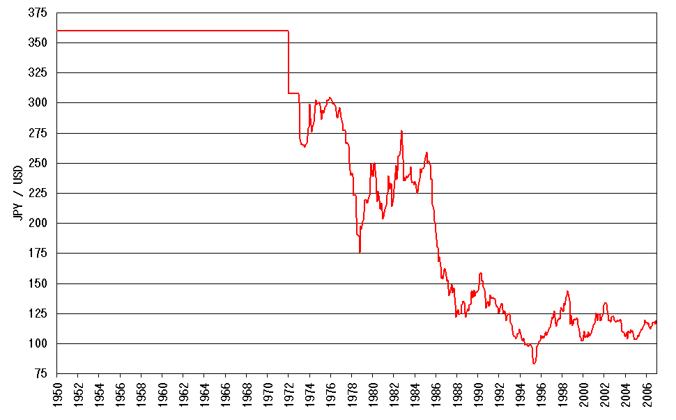 Graph showing Japanese yen and U.S. dollar exchange rate from January, 1950 to December, 2006.